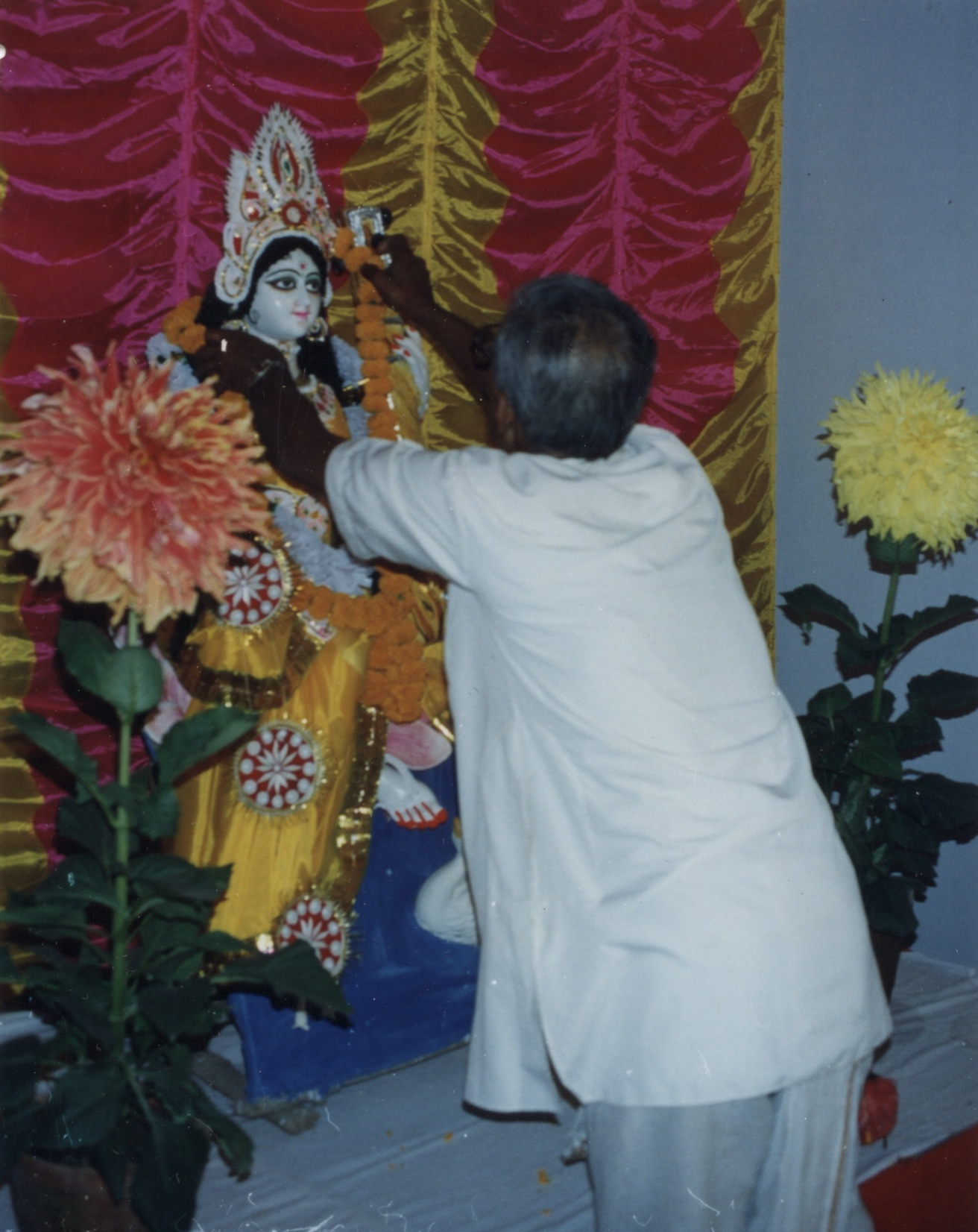 A Hindu priest in Kolkata offers a garland of flowers to the goddess Saraswati during Vasant Panchami, the Festival of the Devi. The statue was manufactured for this purpose and will be thrown into the river at the end of the festival.